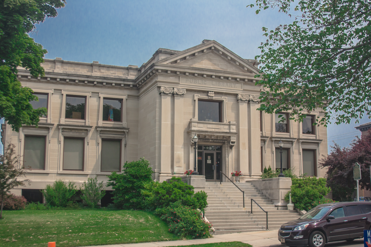 Manistee Public Library